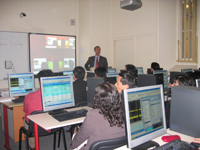 Online Learning